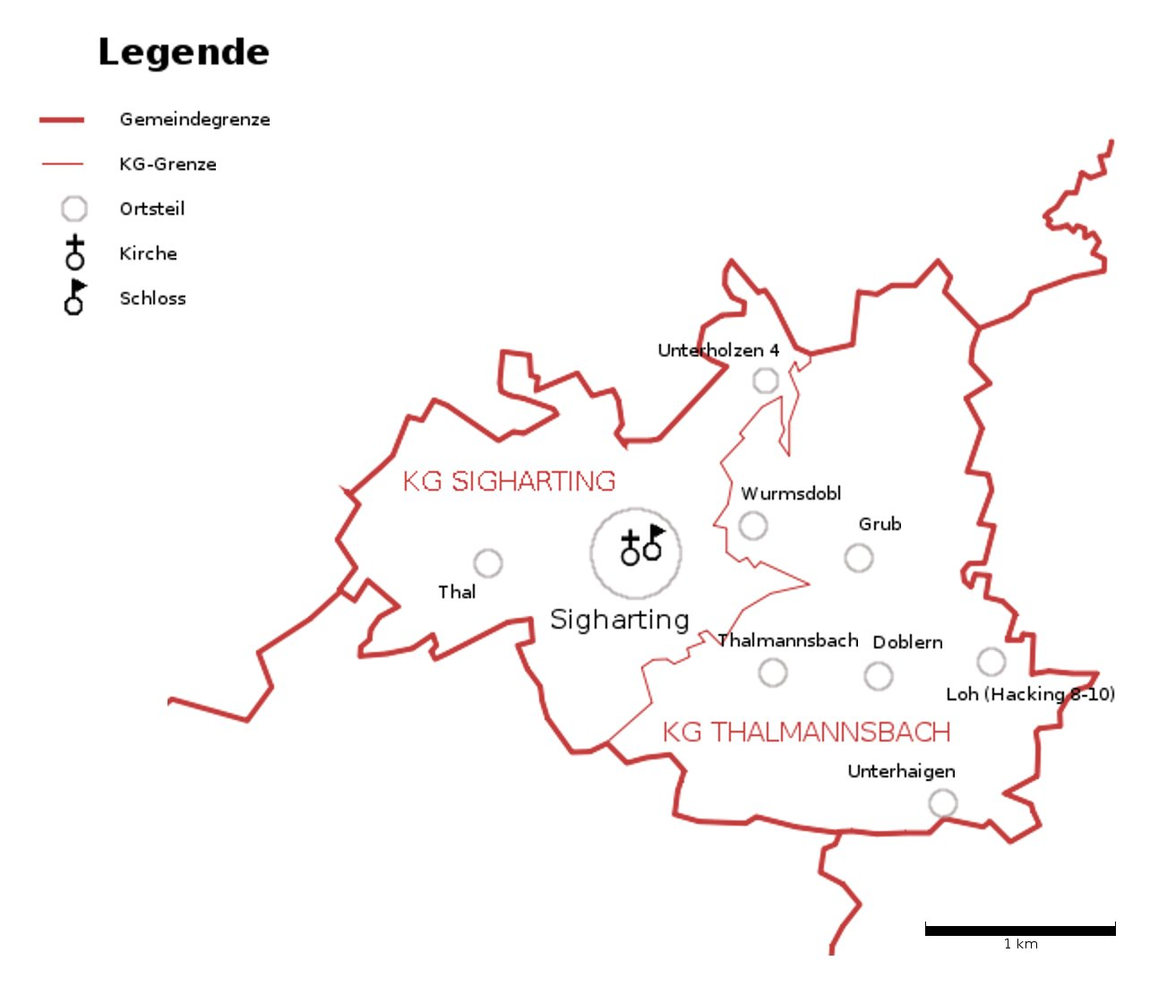 Map of the villages of Sigharting municipality